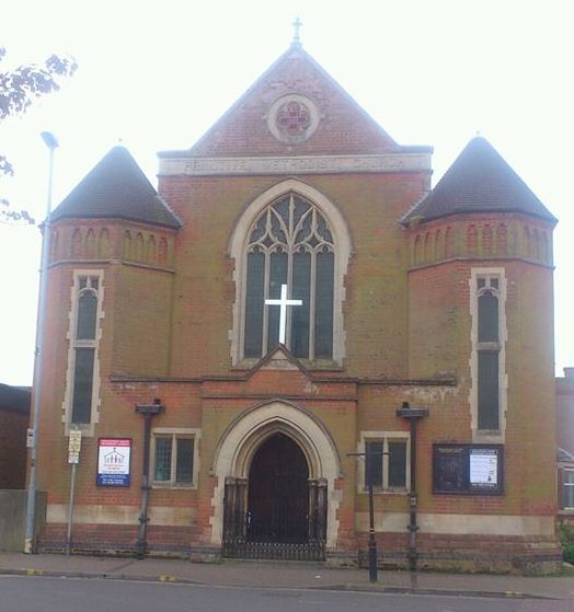 Coalville Methodist Church, Marlborough Square (formerly the Primitive Methodist Chapel) - built in 1903.